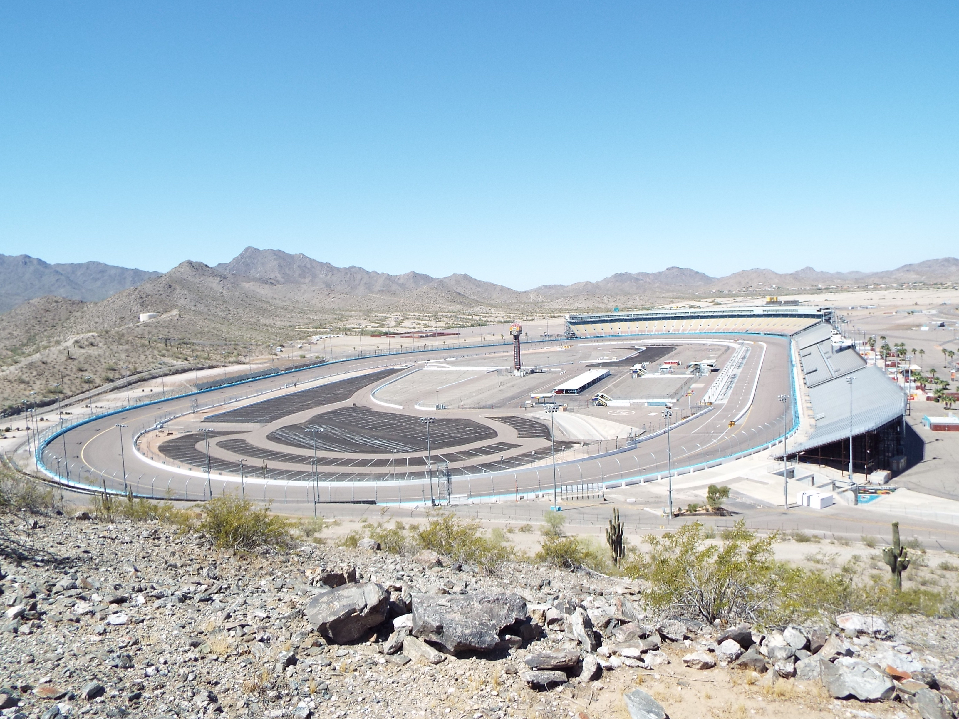 Phoenix International Raceway as viewed from the summit of Monument Hill in Avondale, Az.